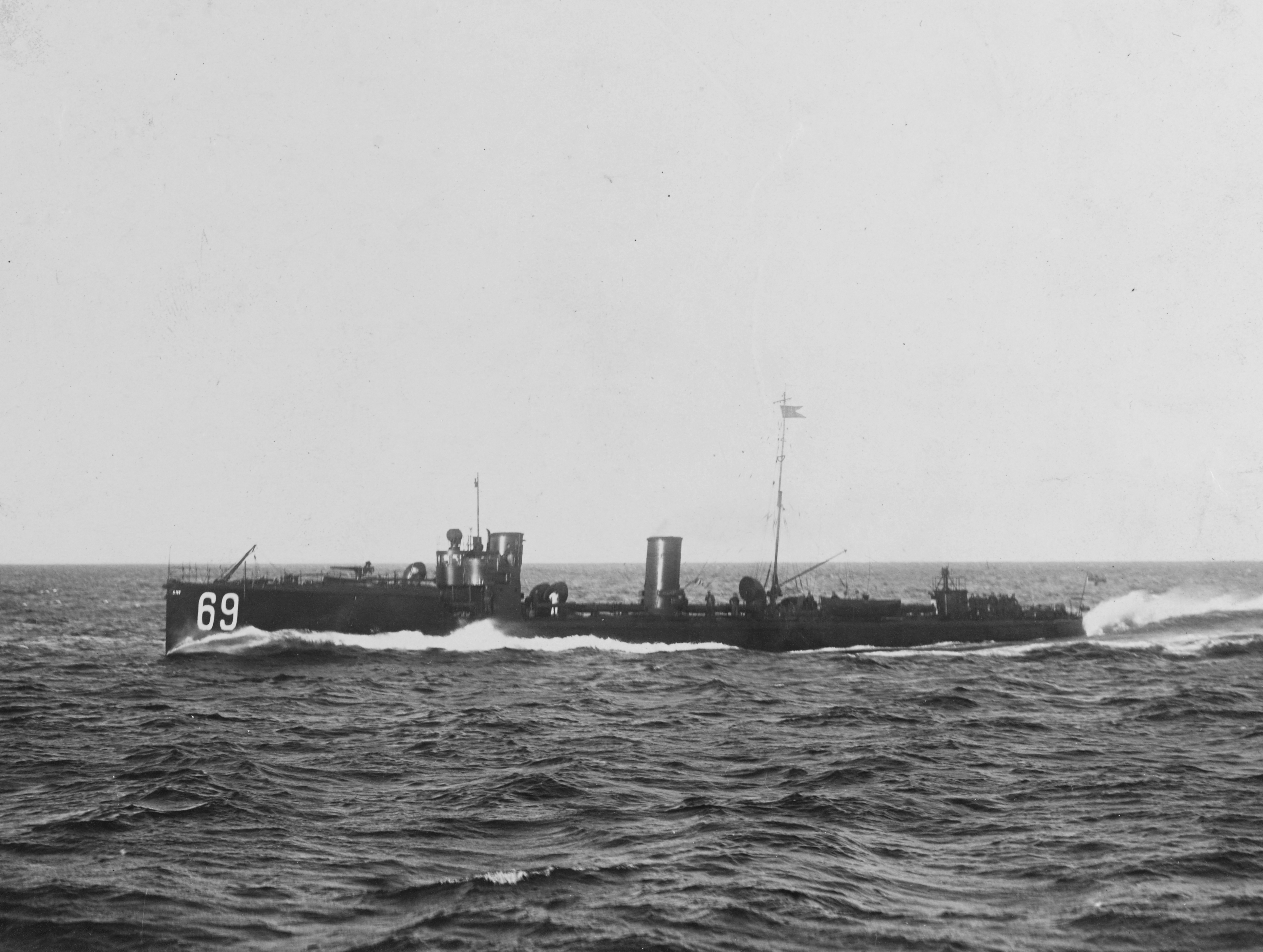 The Imperial German Navy large torpedoboat SMS S169 underway before the First World War. SMS S169 was commissioned on 29 April 1909 and scrapped in 1922. The prefix "S" was given to torpedoboats built at the Schichau-Werke, Elbing (then Germany, today Elbląg, Poland). S169 was redesignated T169 on 24 September 1917.